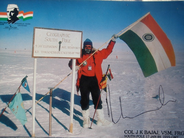 Befittingly marking The Nehru Centenary Year, the Indian tricolour breaks the breeze at the Geographic South Pole, hoisted by Col. JK Bajaj, SM, VSM (the first Indian-first Asian making overland journey to the S Pole). Autographed by Late Prime Minister Sh Rajiv Gandhi.